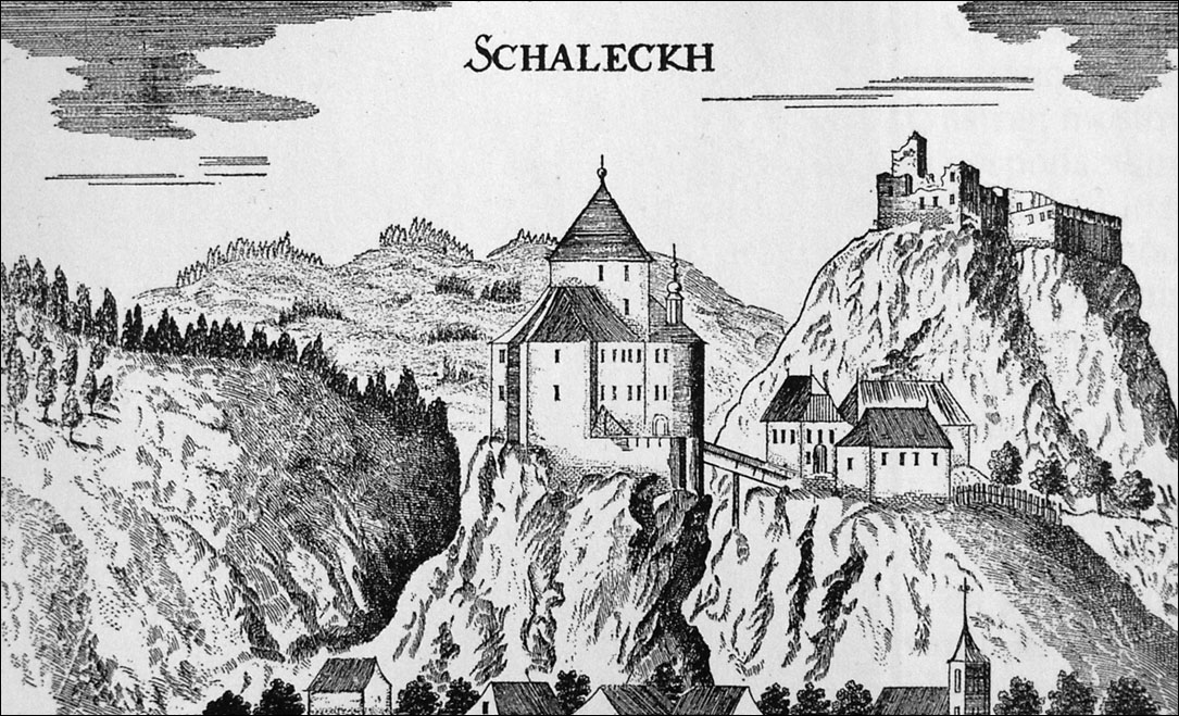 Šalek Castle